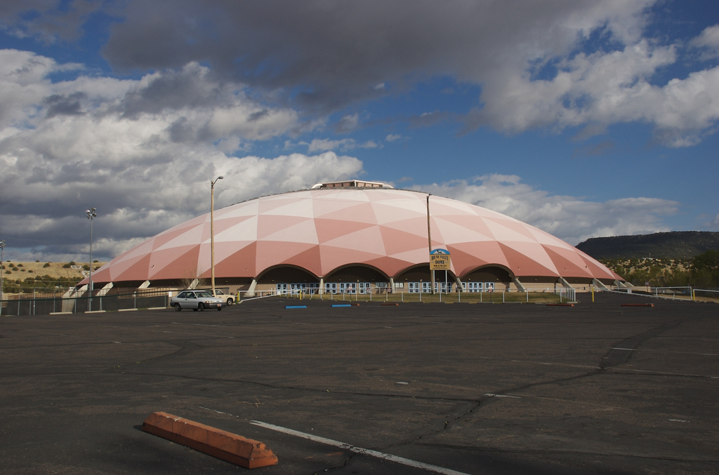 The Round Valley Ensphere is a wood dome stadium in Eagar, Arizona, USA owned by Round Valley High School.